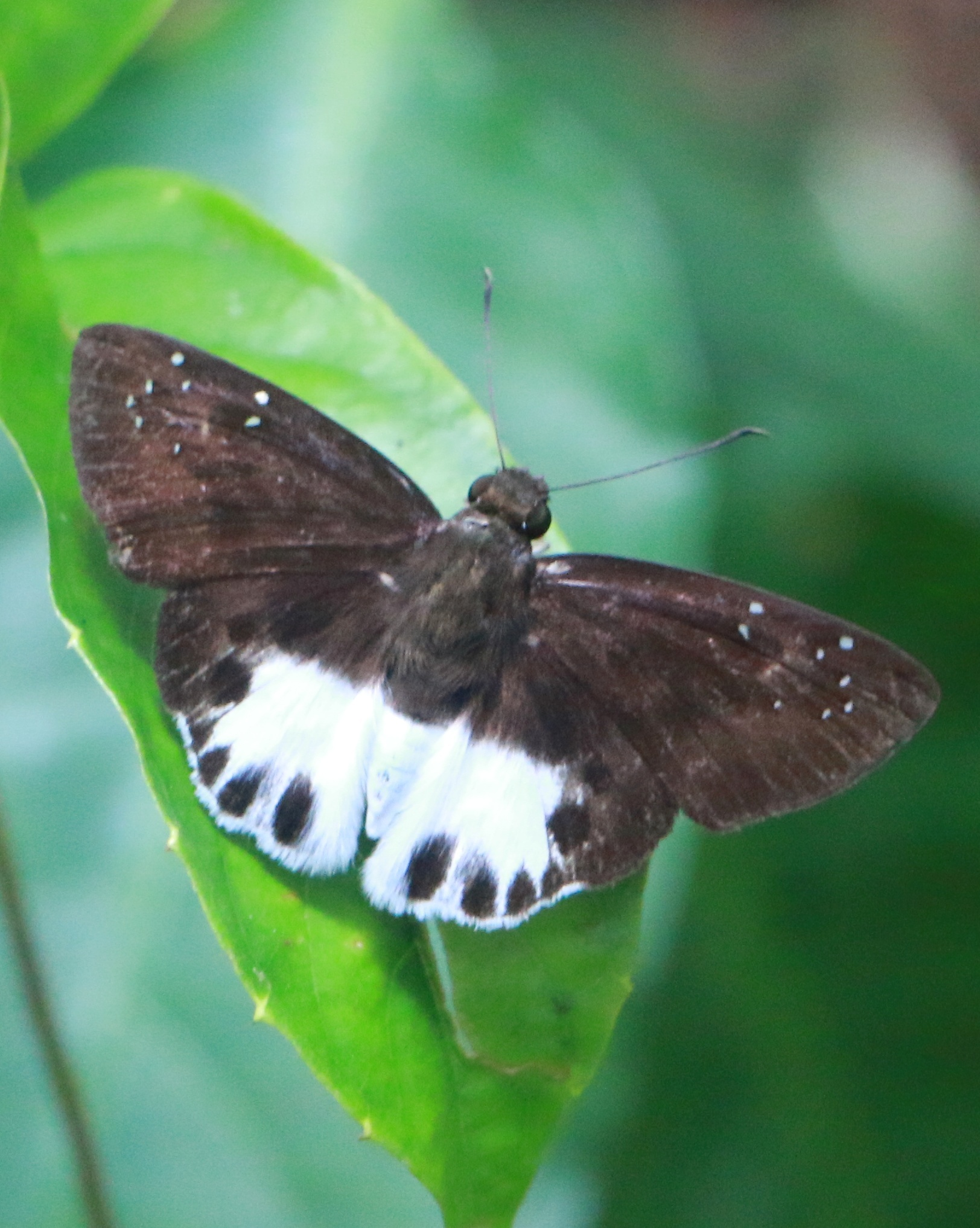 (Tagiades litigiosa)Water Snow Flat from koottanad Palakkad Kerala